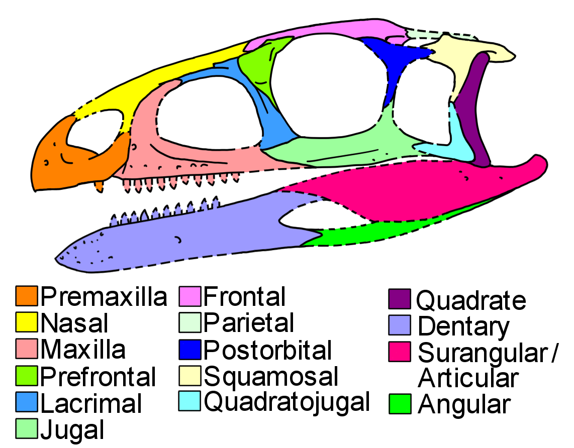 A color-coded skull diagram of Asilisaurus kongwe, redrawn from a diagram published by Nesbitt, Langer, & Ezcurra (2019). Dotted lines indicate missing bone.